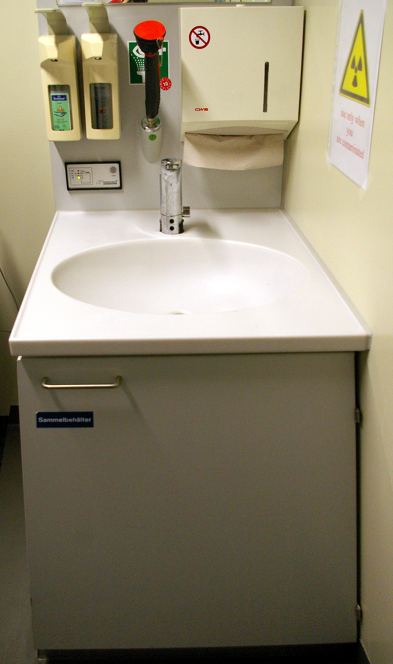 Washing station for decontamination in a radiolab